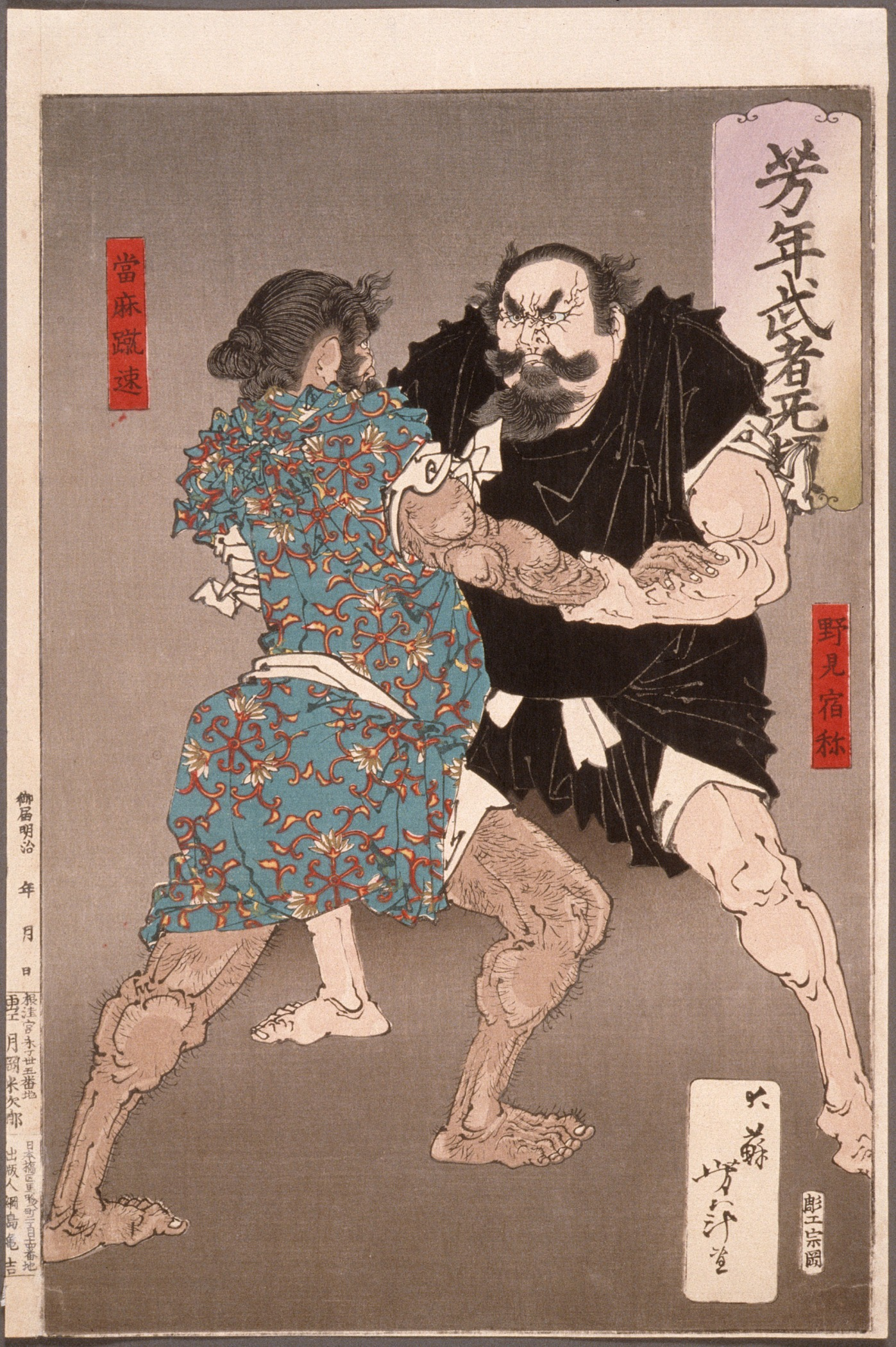 Japan, 1885 Series: Yoshitoshi's Warriors Trembling with Courage Prints; woodcuts Color woodblock print Herbert R. Cole Collection (M.84.31.87) Japanese Art 『日本書紀』などに登場する野見宿禰（右）と当麻蹴速の相撲を描いたもの。